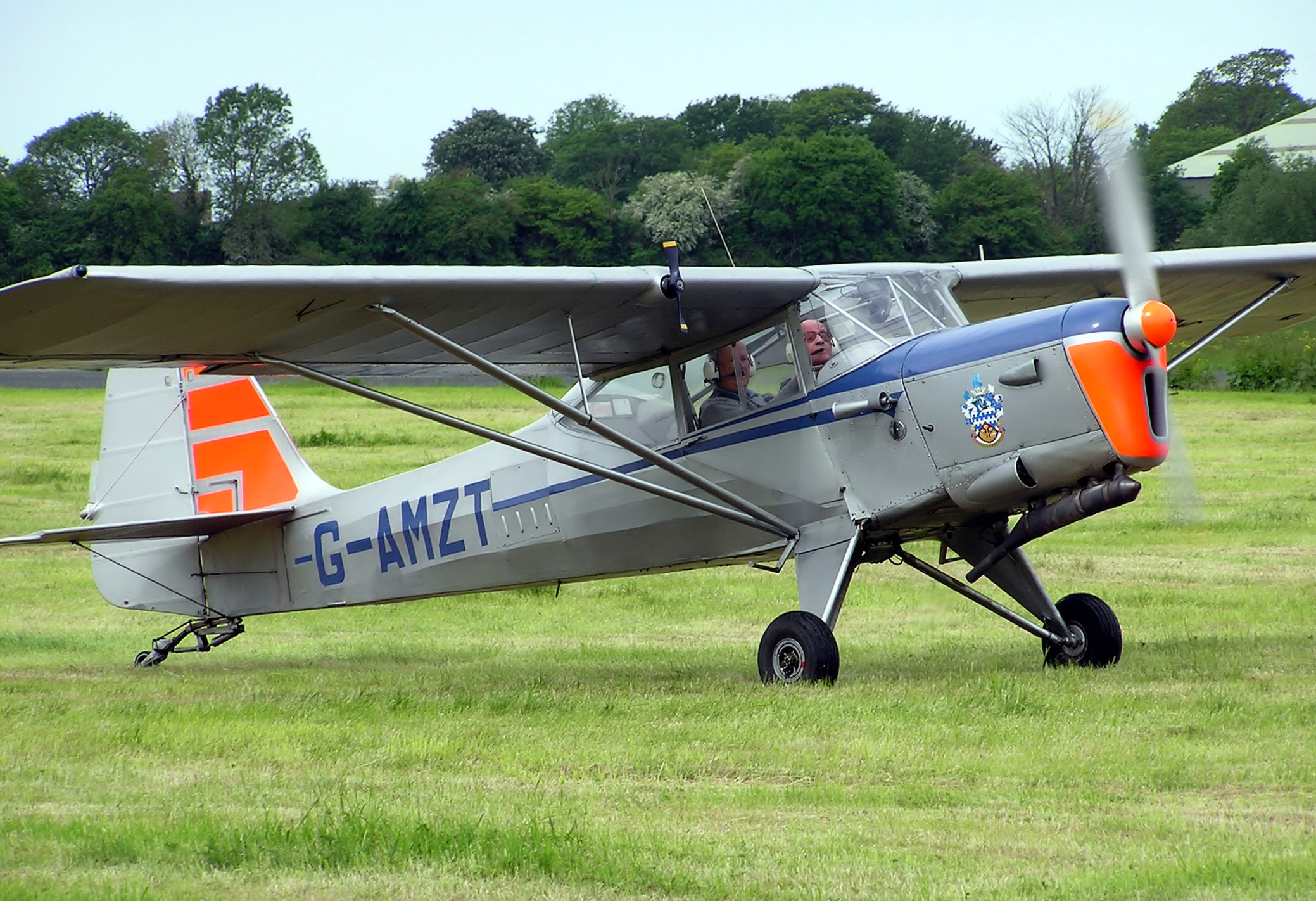 Auster Aiglet J5F trainer (UK registration G-AMZT) at Keevil Airfield, Wiltshire, England. Photographed by Adrian Pingstone on May 27th 2006 and released to the public domain.